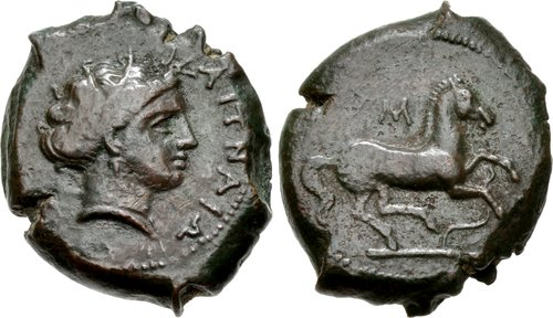 Sicily, Aetna. Circa 354/3-344 BC Æ Hexas (16mm, 5.74 g, 6h). ΑΙΤΝΑΙΩΝ Female head right (Persephone ?), wearing wreath and earrings Horse prancing right; M above.